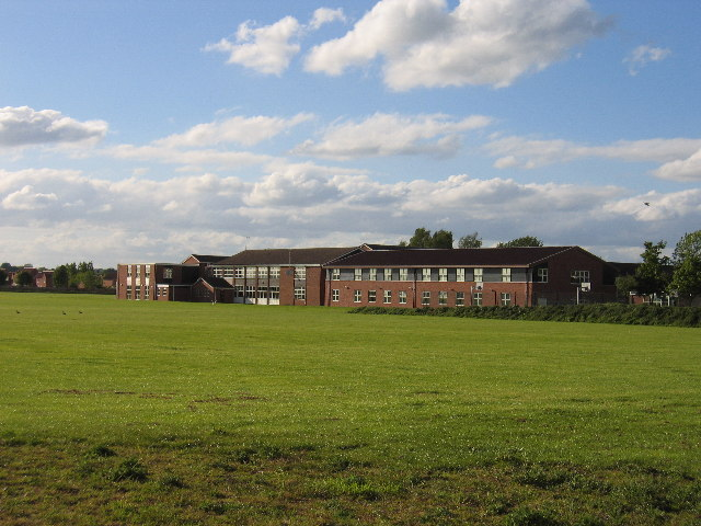 Aylesford School. Seen across the playing fields from the Stratford Road, Warwick